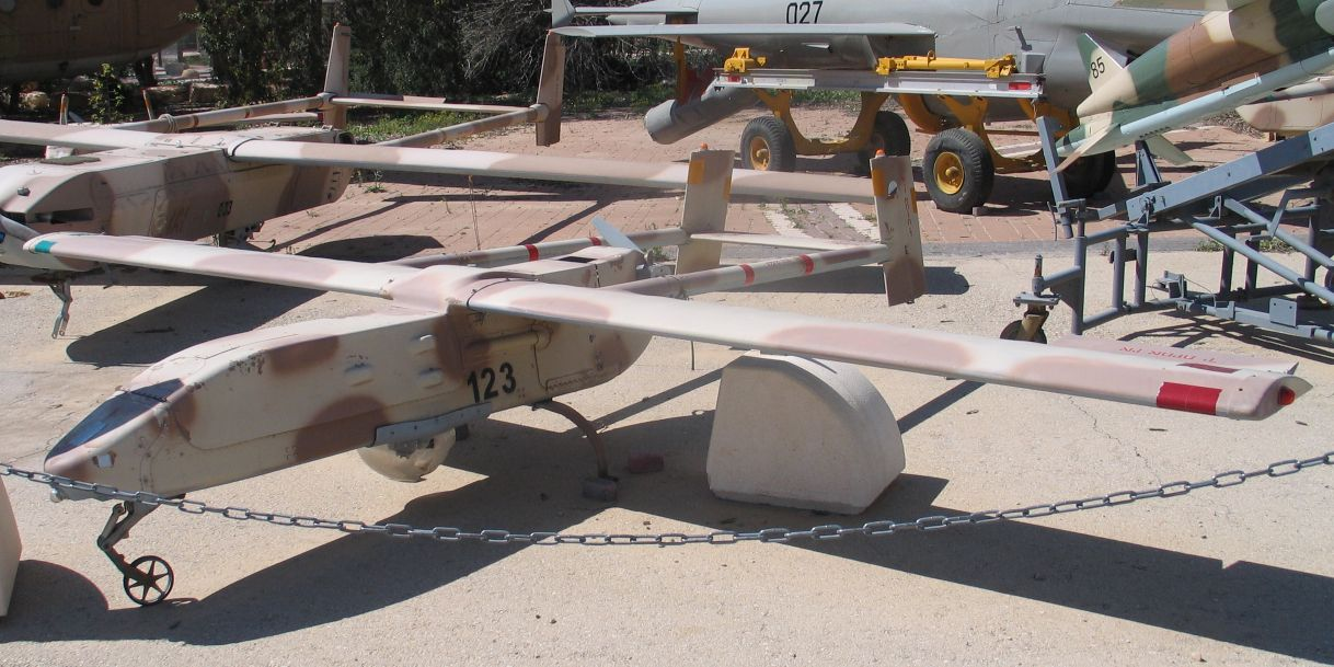 Description: IAI Scout UAV at Muzeyon Heyl ha-Avir, Hatzerim airbase, Israel. 2006.